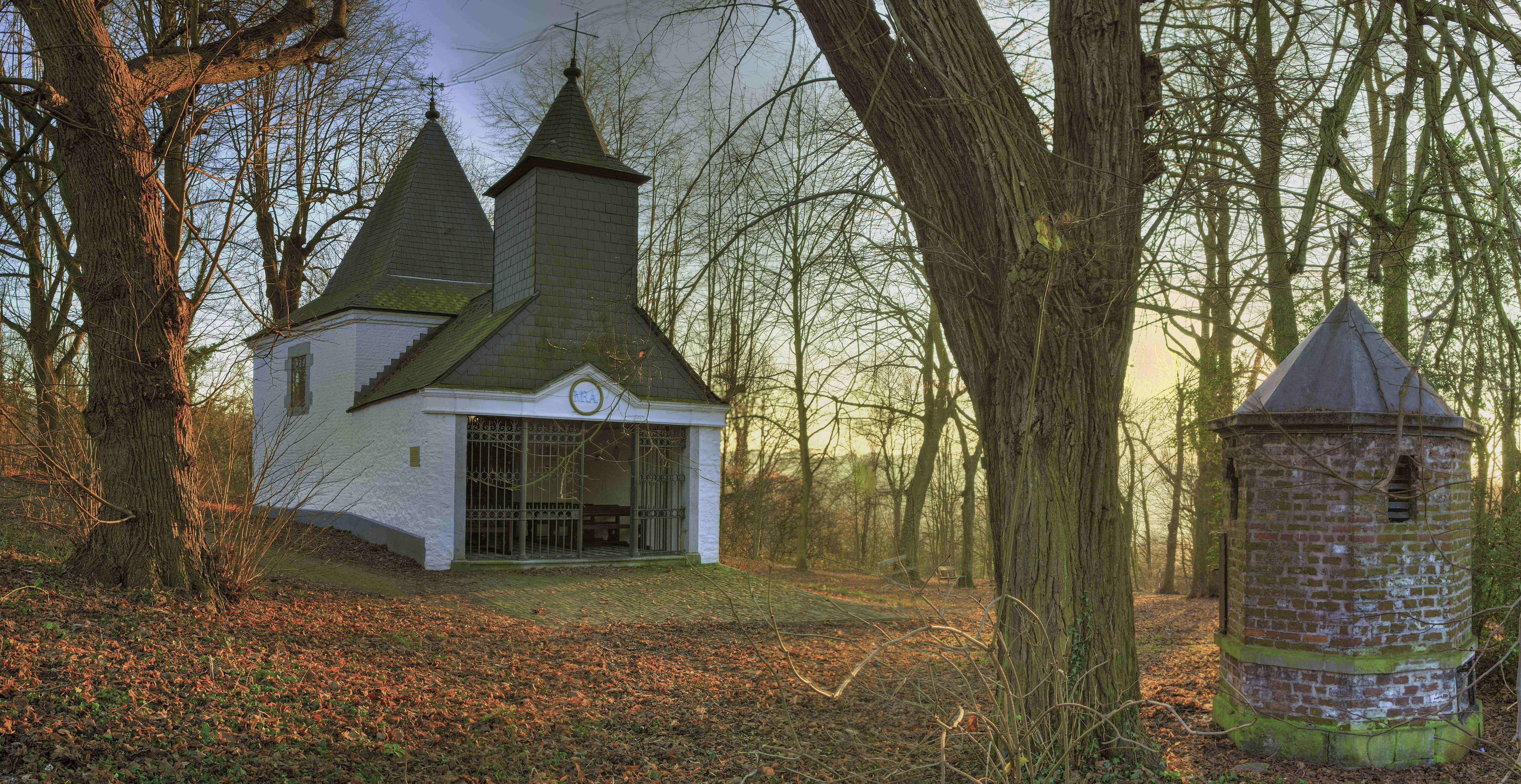 Chapelle Notre-Dame de Chèvremont